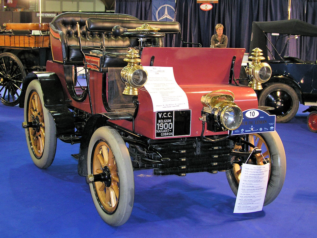 14/15 HP car with an opposed-piston engine after the French Gobron-Brillié design, made in Belgium by Fabrique d'Armes et d'Automobiles Nagant Frères; right front-side view